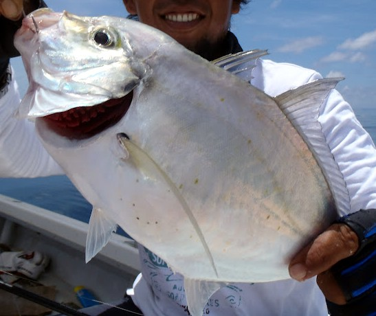 Carangoides coeruleopinnatus, Bali